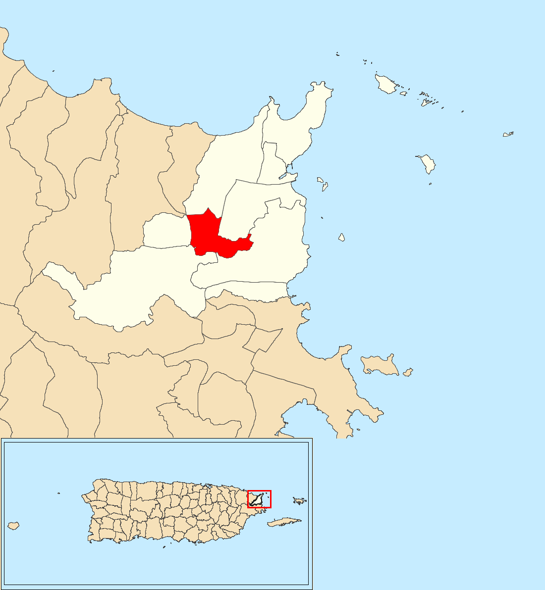 Florencio, Fajardo, Puerto Rico locator map